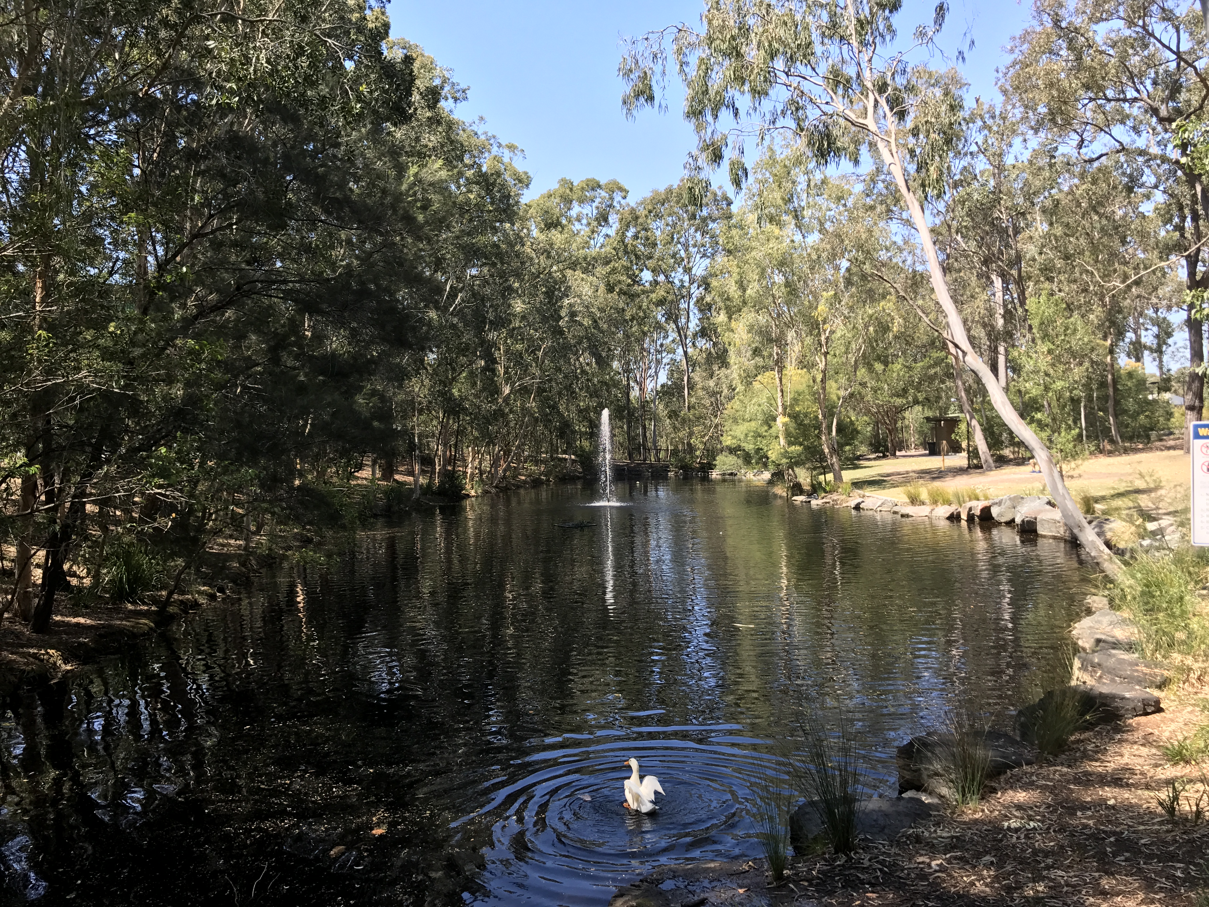 Pond at Sleeman Centre, Brisbane